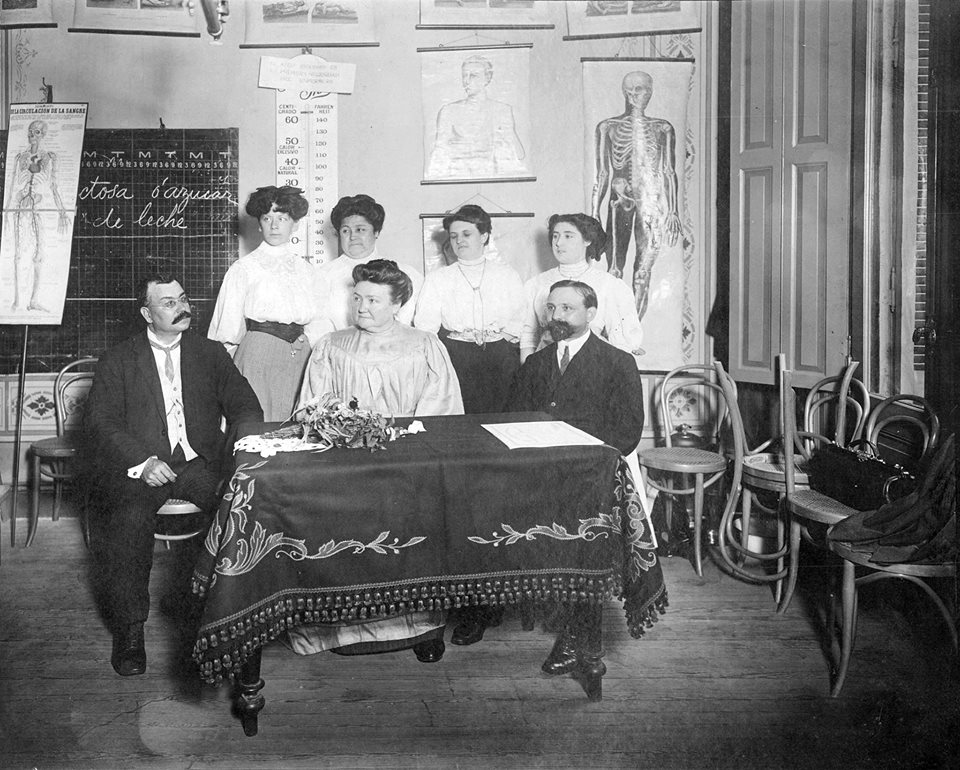 Argentine doctor Cecilia Grierson with other teachers during a test in the Medical School of the University of Buenos Aires.